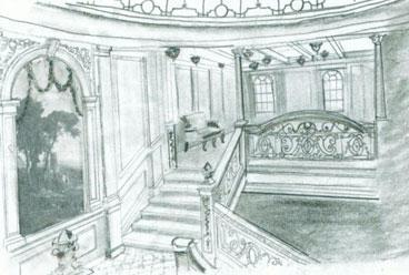 Drawing of the First Class Grand Foyer and Staircase of the RMS Britannic (HMHS Britannic)